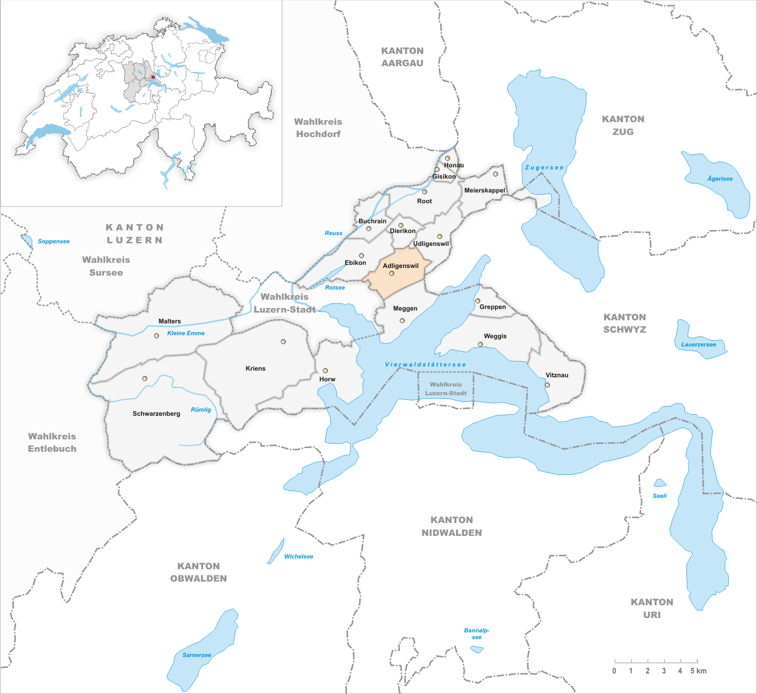 Municipality Adligenswil